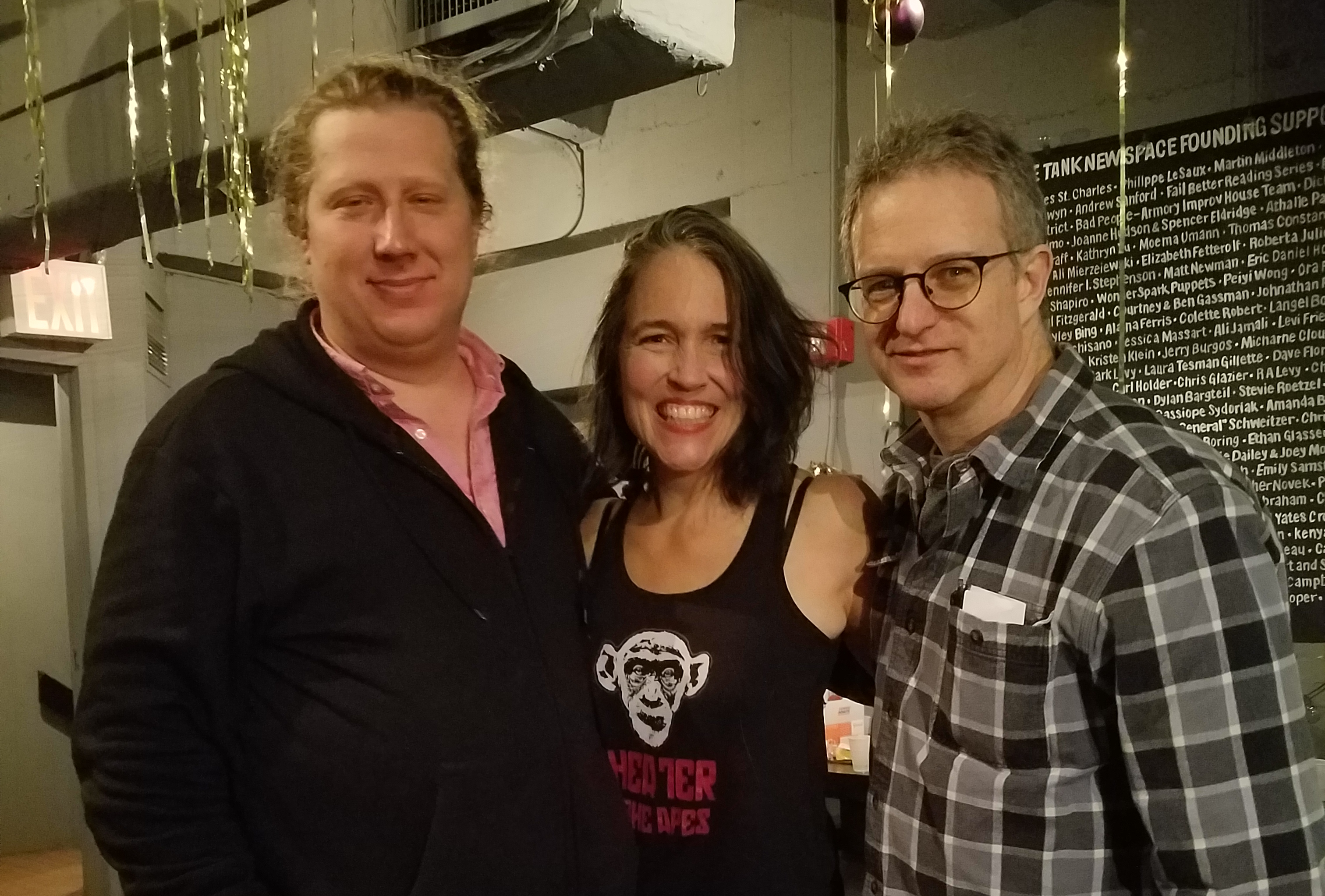 Left to right, David Carl, Ayun Halliday, and Greg Kotis at The Tank on December 8, 2018, for the opening of The Truth About Santa, written by Kotis with performances by Carl and Halliday.